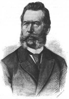 Portrait of Hungarian poet Janos Vajda